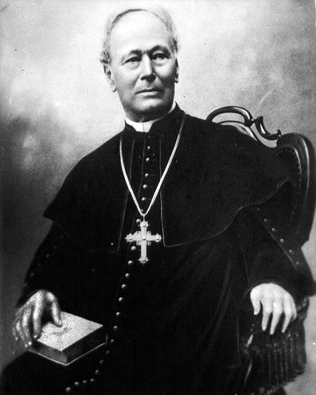 old Croatian book